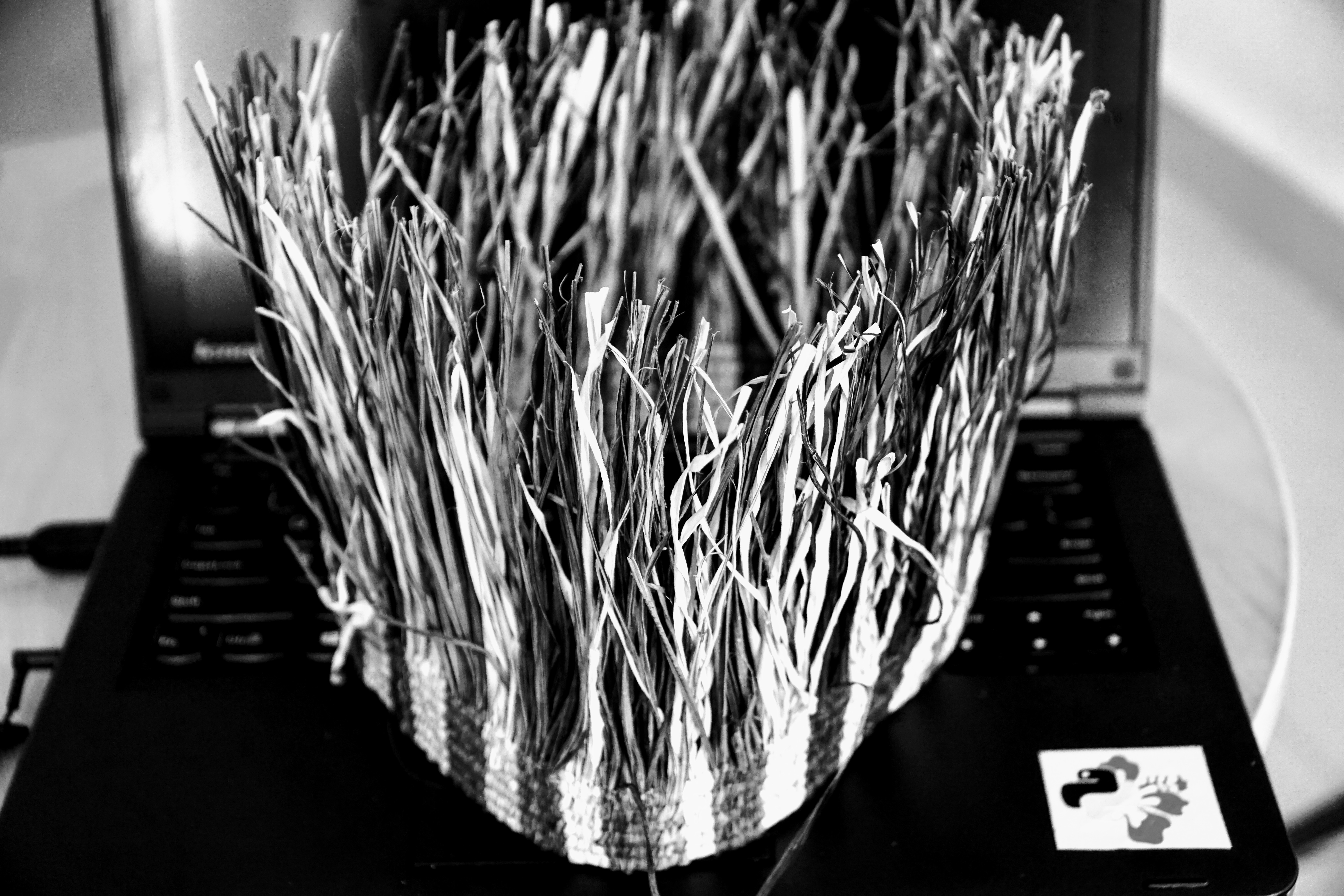 Temiar Headress